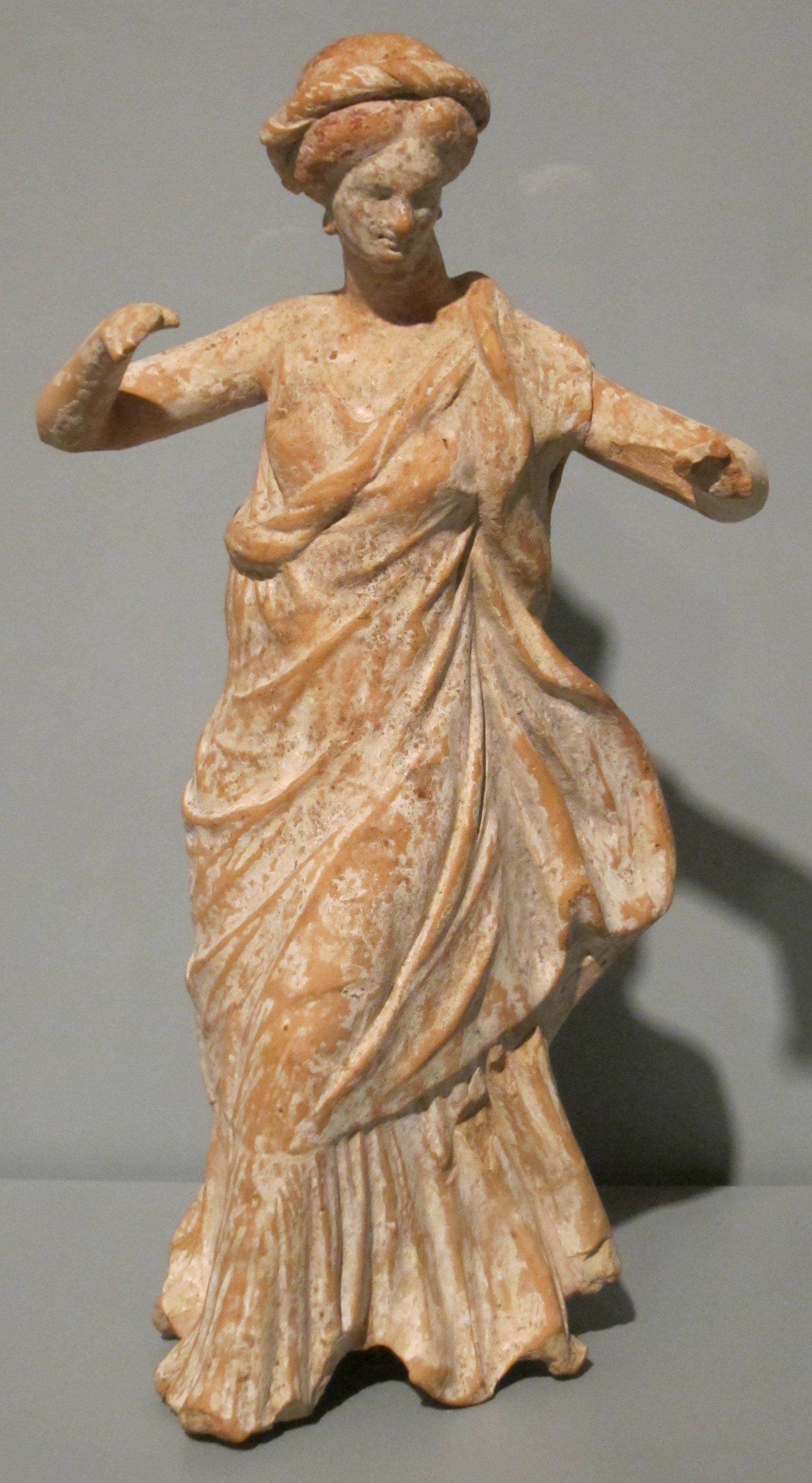 Statuette of a Dancing Woman, Greece, 4th century BCE, terracotta, Honolulu Academy of Arts